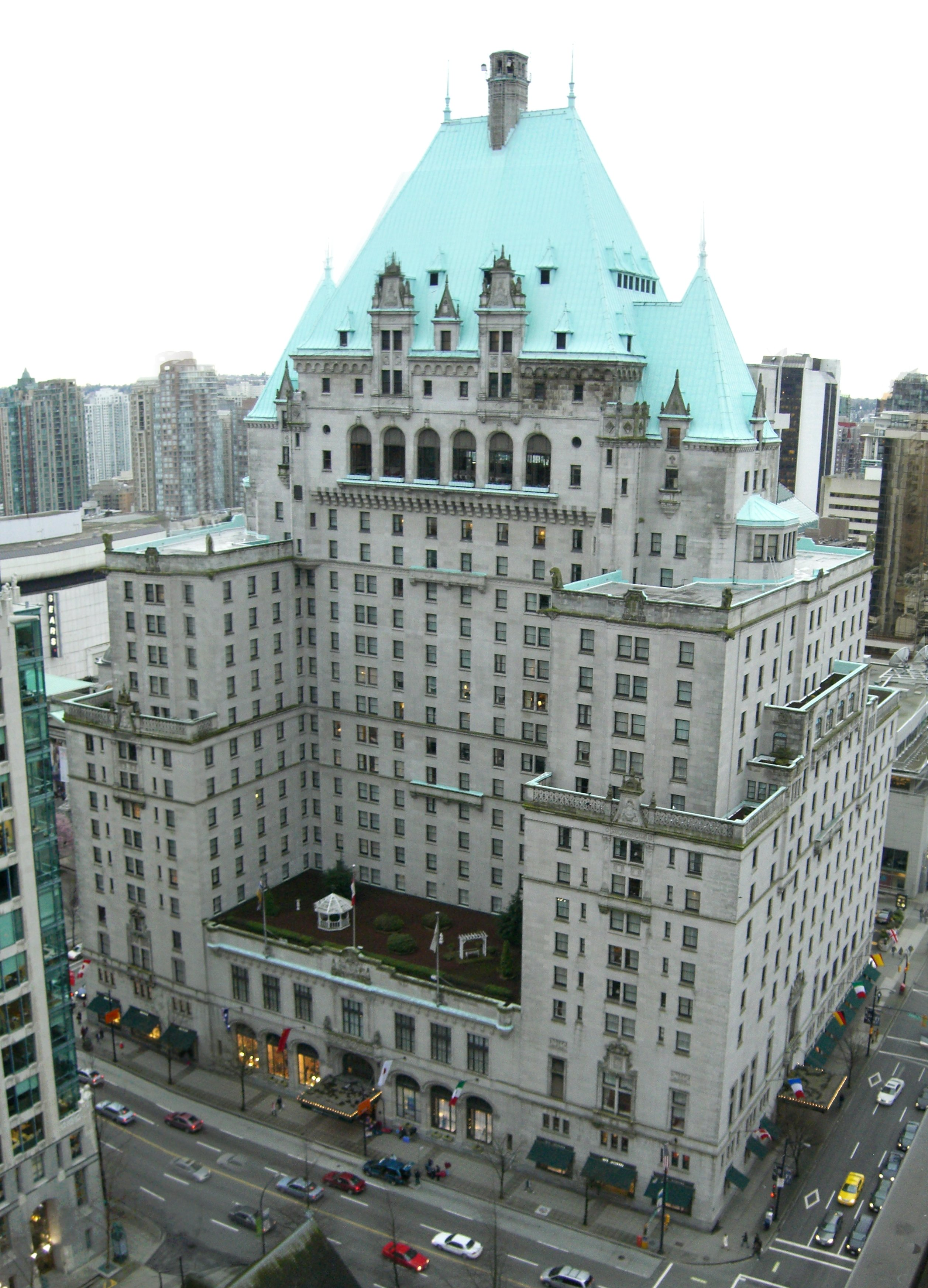 Composite image of Hotel Vancouver taken from 27th floor, Hyatt Regency